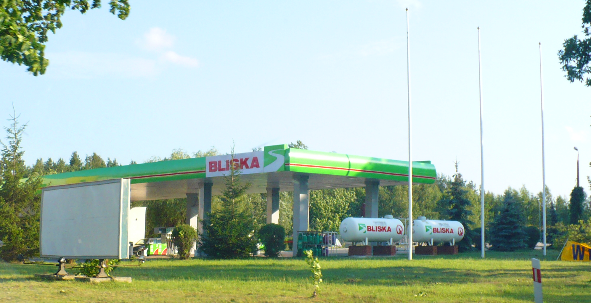 Bliska petrol station